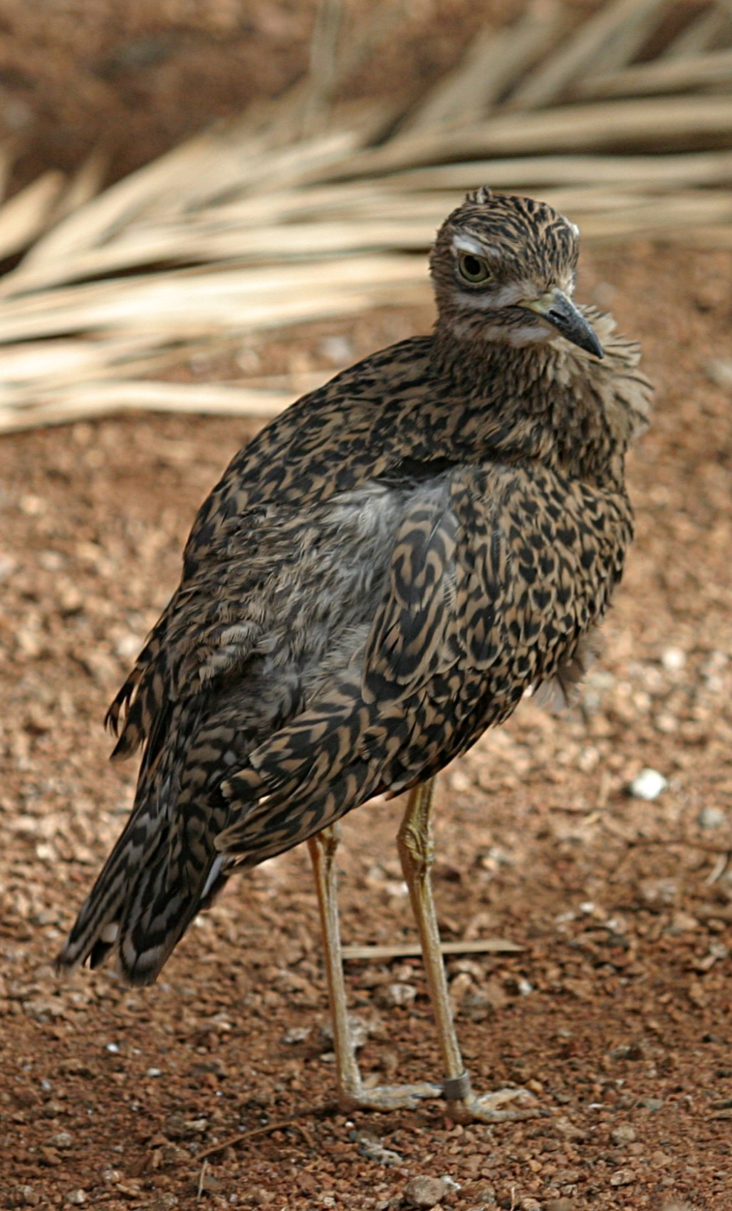 A Cape Thick-knee (Berhinus capensus or Burhinus capensus) at the Henry Doorly Zoo in Omaha, Nebraska.